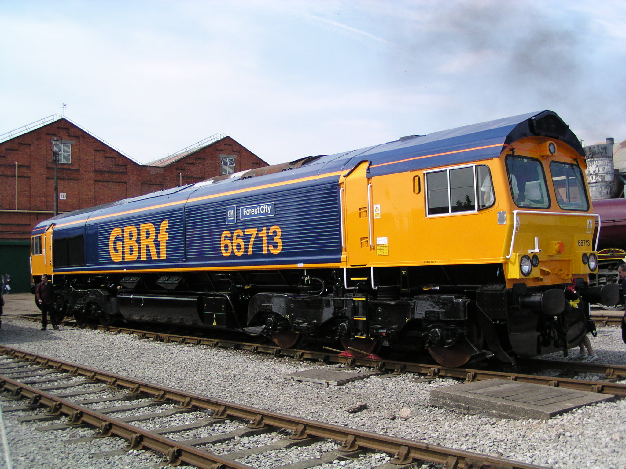 British Rail Class 66, no. 66713 'Forest City' on display at Crewe Works open day on 1st June 2003. This locomotive is one of seventeen operated by GB Railfreight.